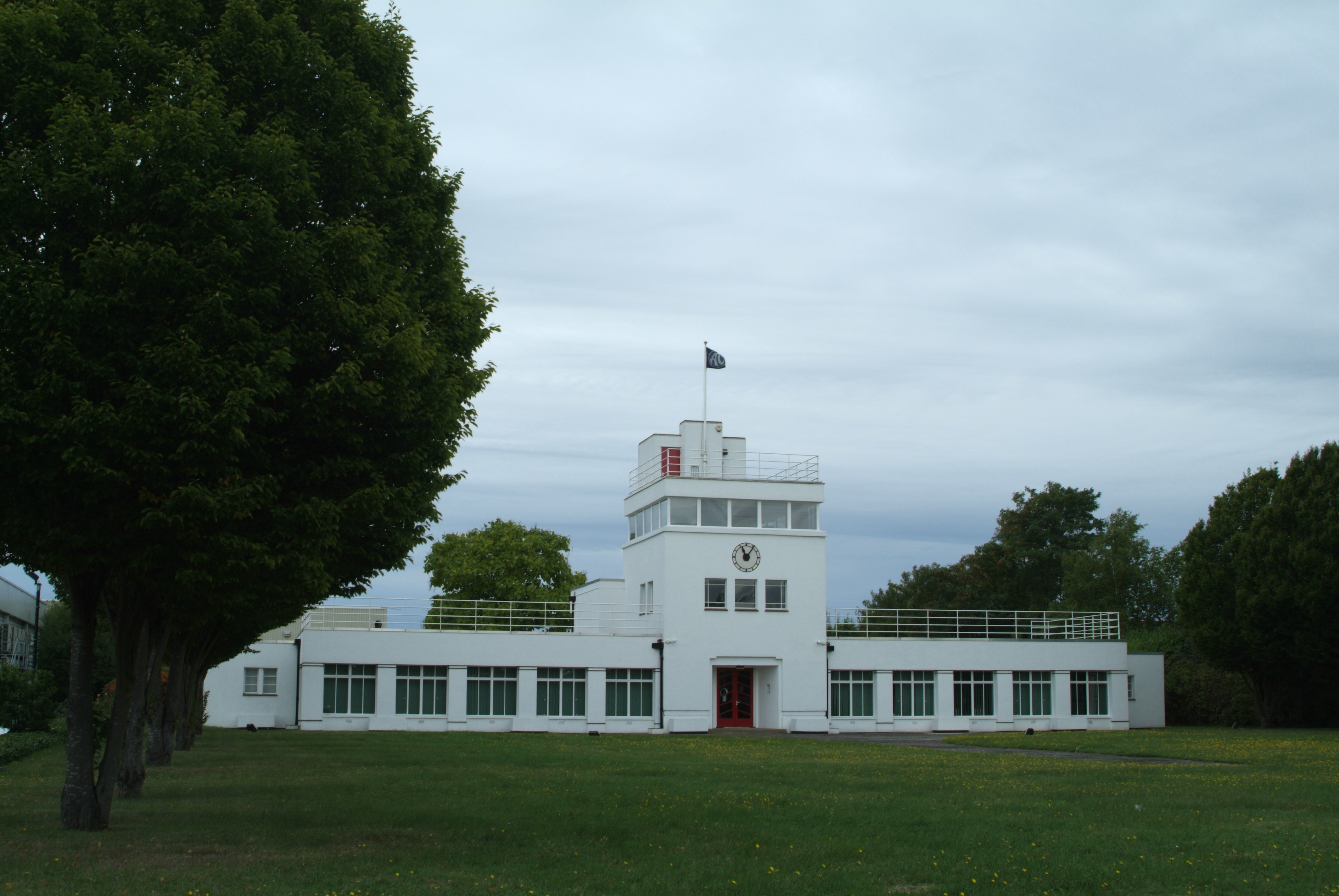 Aero tower and clubhouse, built 1932. This is a grade II listed building for its associations with early aviation in Britain.